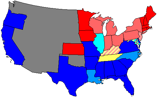 Summary of party control of U.S. house seats in the 36th United States Congress following election. Stripes indicate a tie between two or more parties. Legend: 80.1-100% Democratic seat majority 60.1-80% Democratic seat majority 60% or less Democratic seat plurality 60% or less Republican seat plurality 60.1-80% Republican seat majority 80.1-100% Republican seat majority 60% or less American seat plurality 60.1-80% American seat majority 80.1-100% American seat majority